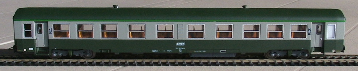 USI B10t with Y28D bogies (160 km/h). Scale model by LS Models.